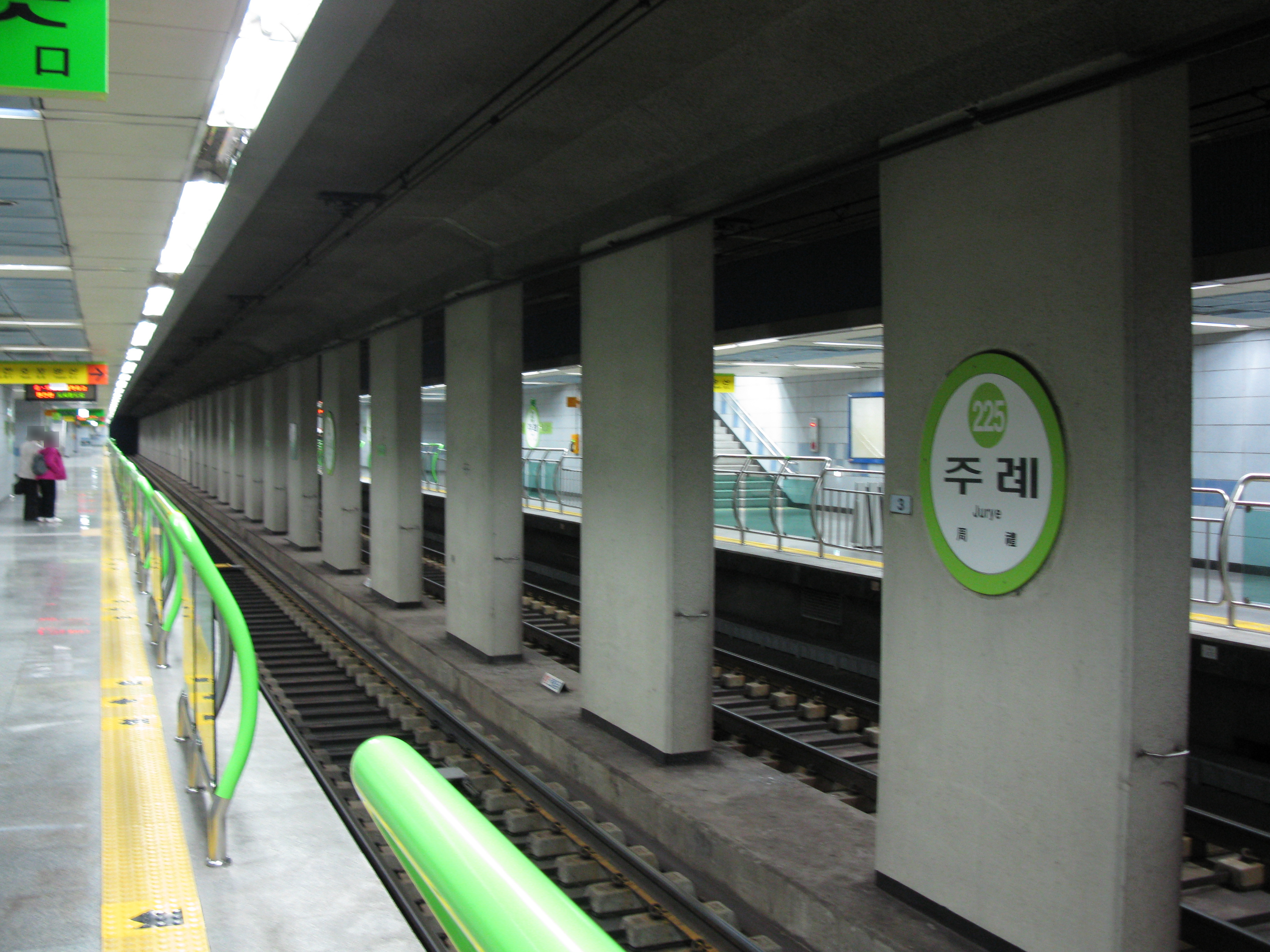 Jurye Station platform (Busan Subway Line 2)